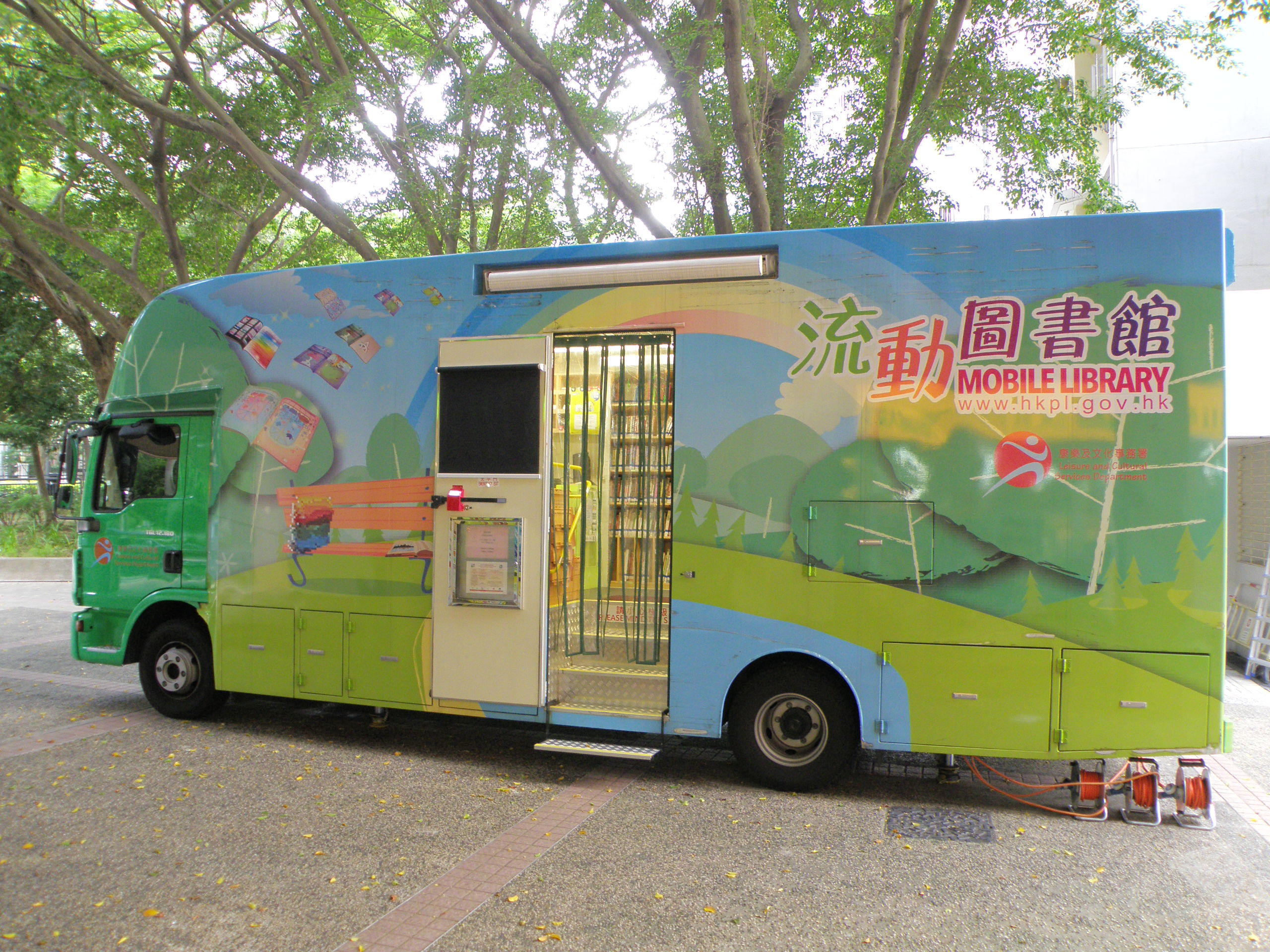 Mobile Library, Hong Kong.